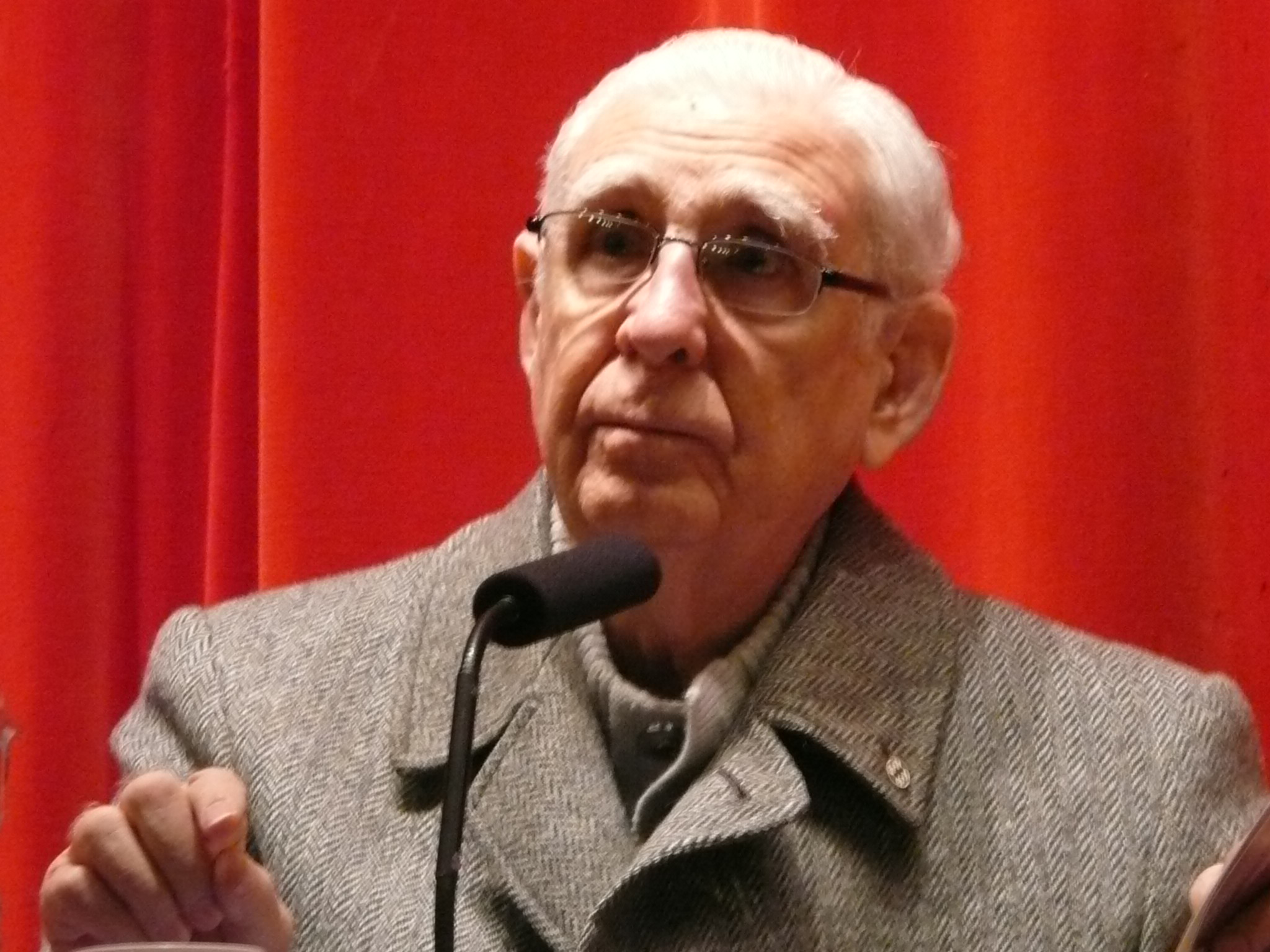 Fernando Cardenal, jesuit and former Minister for Education in the first sandinist goverment of Nicaragua, during the presentation of his book Junto a mi pueblo in Valladolid, Spain.